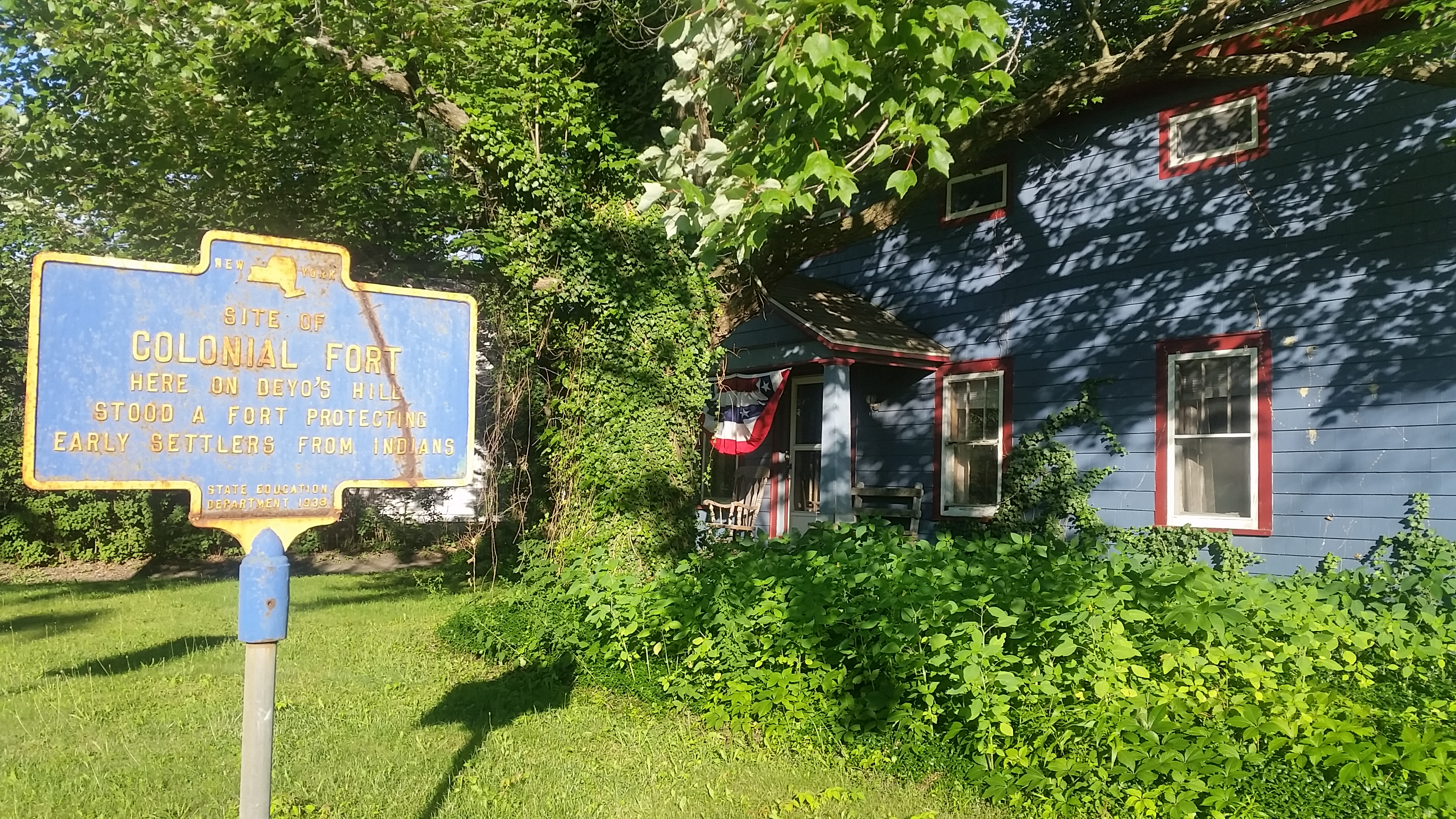 NY State historical marker for the site of a US Colonial Fort on Deyo's Hill